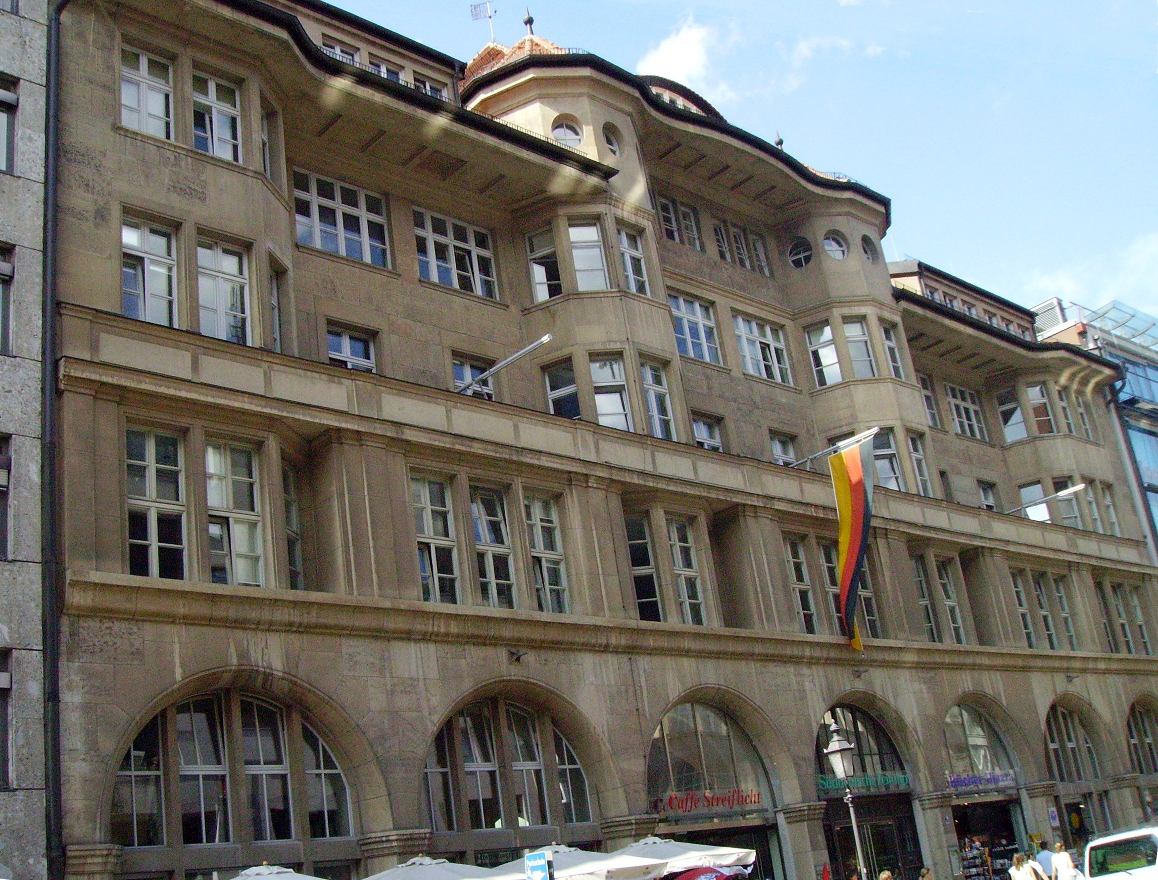 Editorial Building of the German broadsheet "Süddeutsche Zeitung", Munich, Sendlinger Straße. Photo taken by User in July 2006.